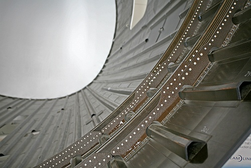 Photo by Christopher Boffoli (2007). A disassembled carbon fiber fuselage section of the Boeing Dreamliner 787 in Everett, Washington